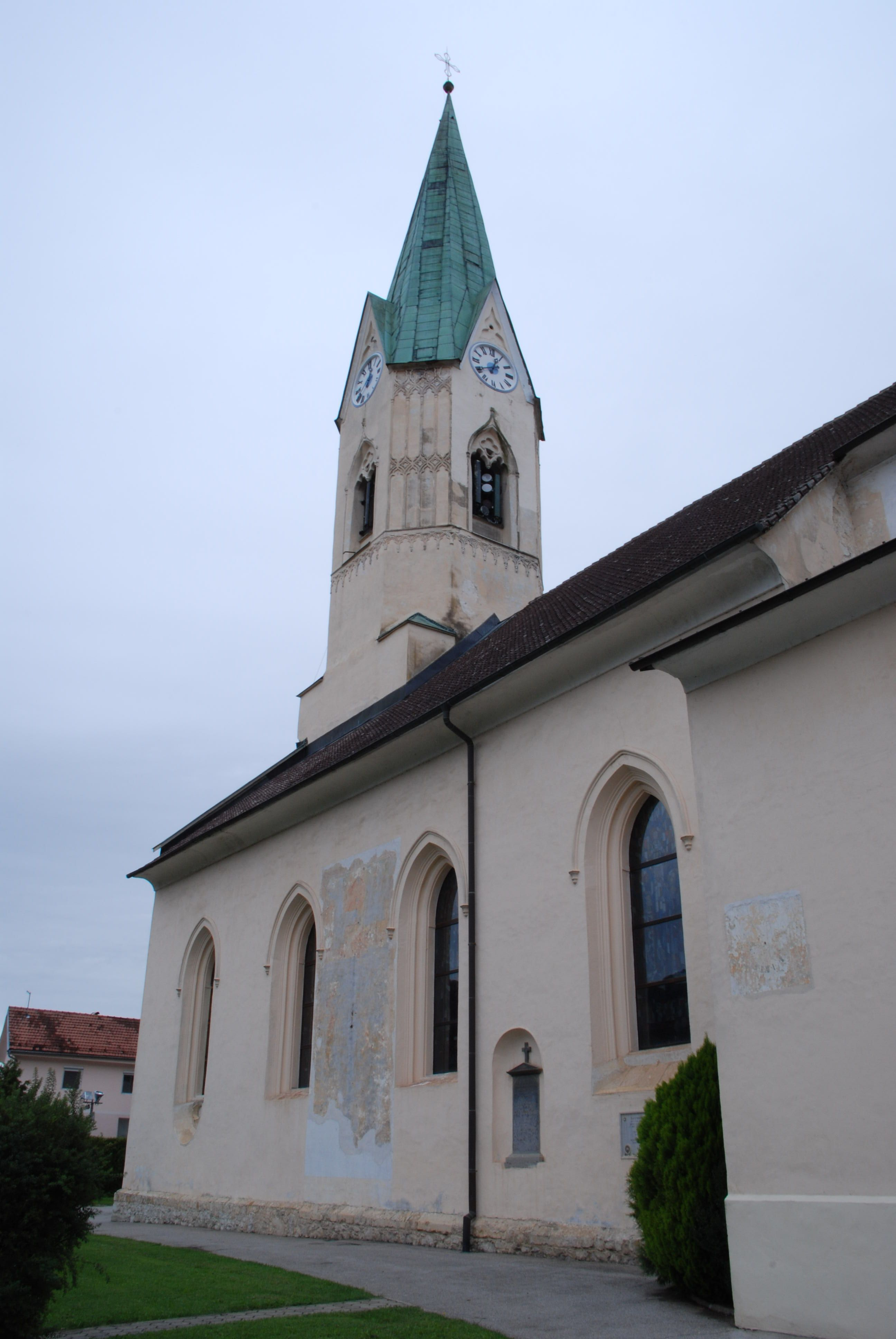 Assumption of Mary Parish Church, Trebnje, Slovenia.